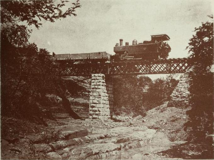 Weenen light railway bridge